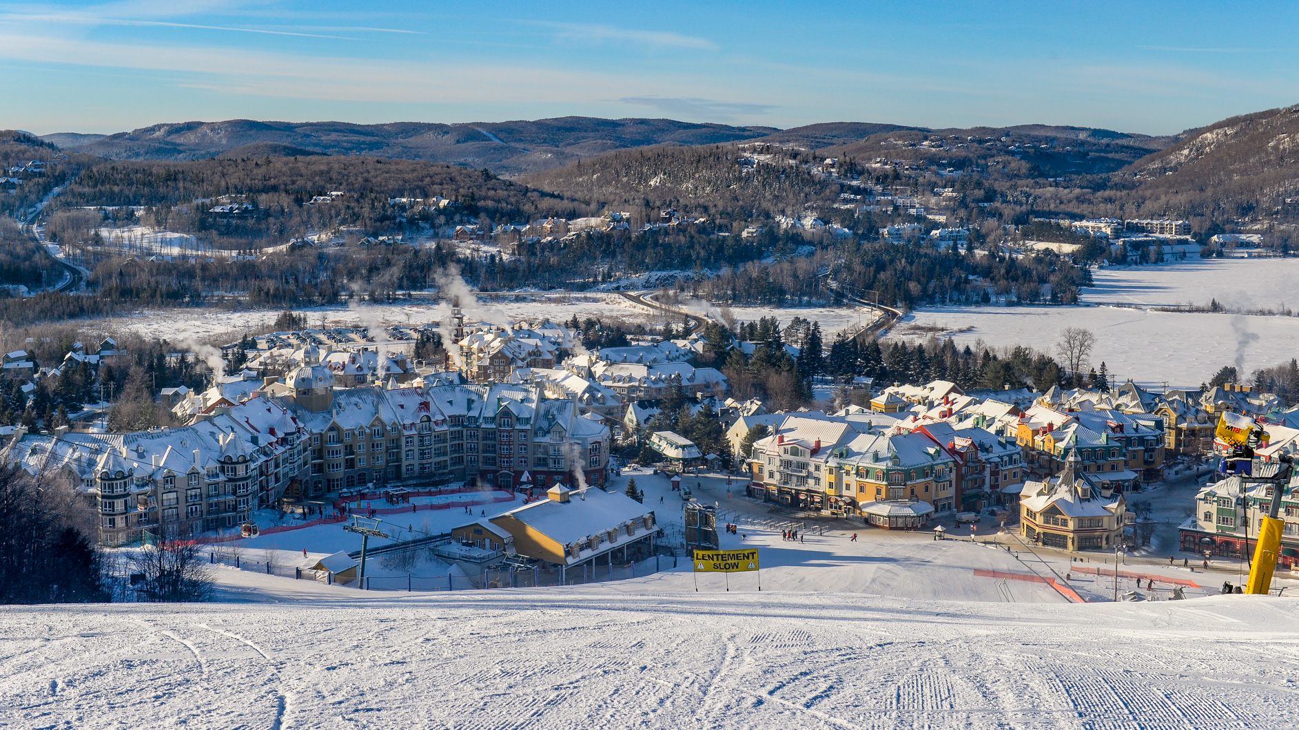 Looking down onto Mont Tremblant village.